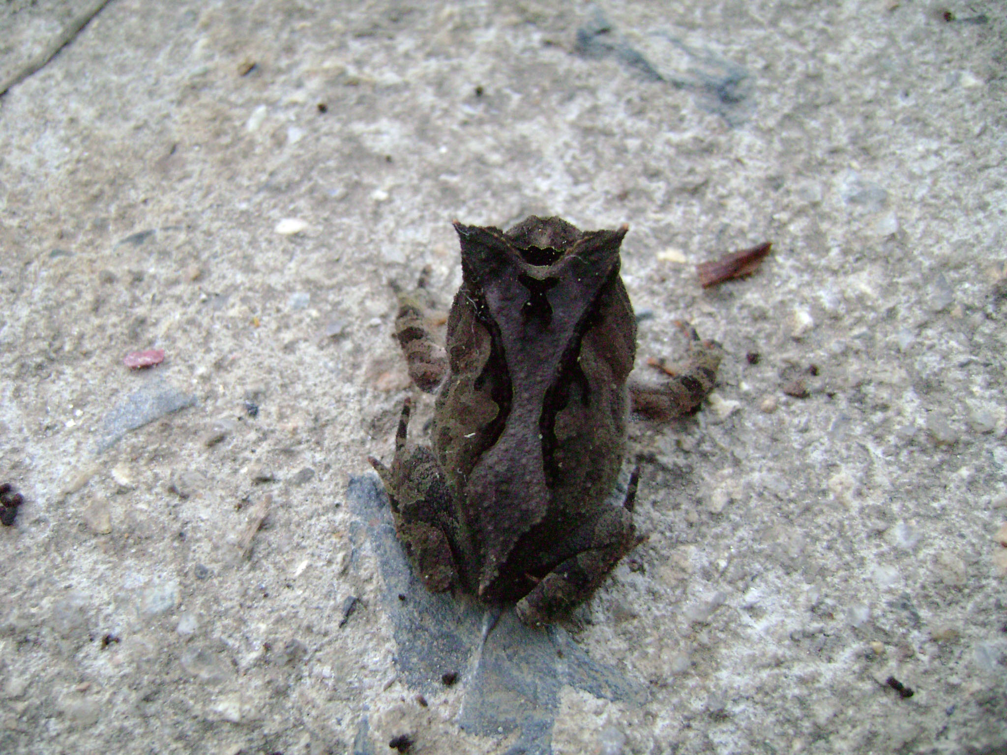 Proceratophrys boiei